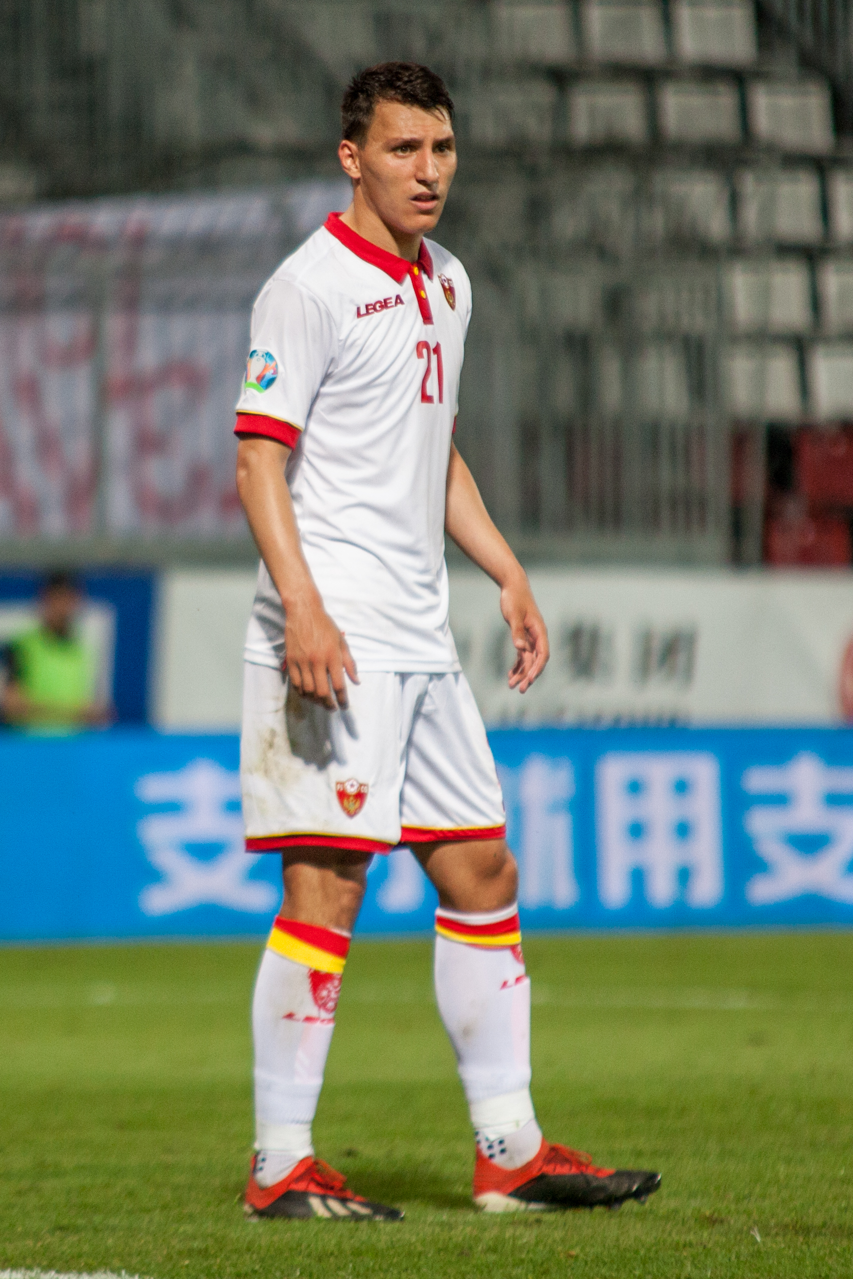 Risto Radunović at EURO 2020 Qualifying Round Czech Republic-Montenegro (10/6/2019, Ander Stadium, Olomouc) Personality rights warningAlthough this work is freely licensed or in the public domain, the person(s) shown may have rights that legally restrict certain re-uses unless those depicted consent to such uses. In these cases, a model release or other evidence of consent could protect you from infringement claims.